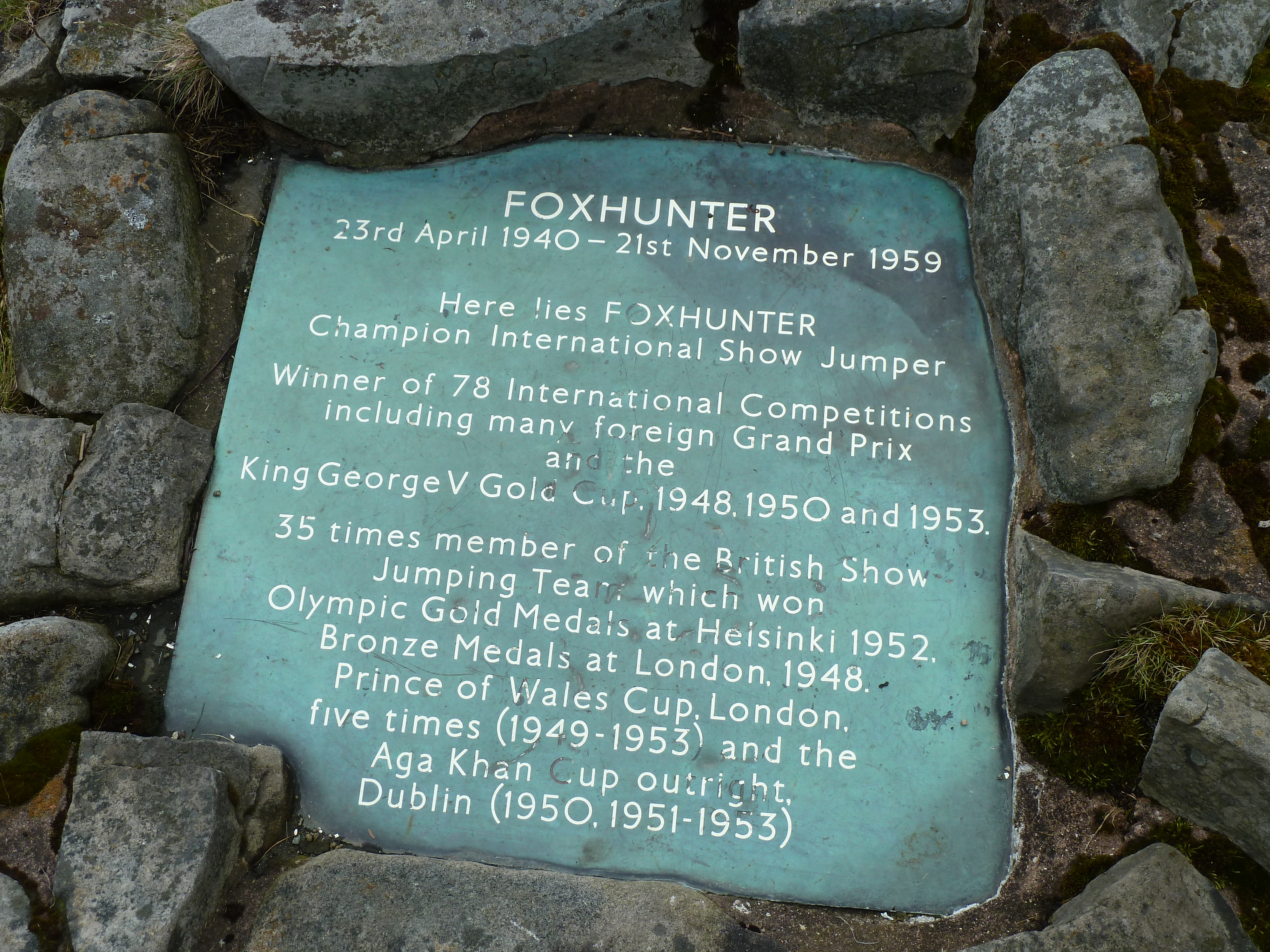 This plaque shows the grave of Foxhunter at the Foxhunter car park on the Blorenge, near Abergavenny in the Brecon Beacons. I took this picture on 12 June 2012 Latitude: 51° 47' 31.16" N Longitude: 3° 4' 8.27" W